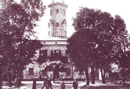 Town hall of Częstochowa in the early 20th century